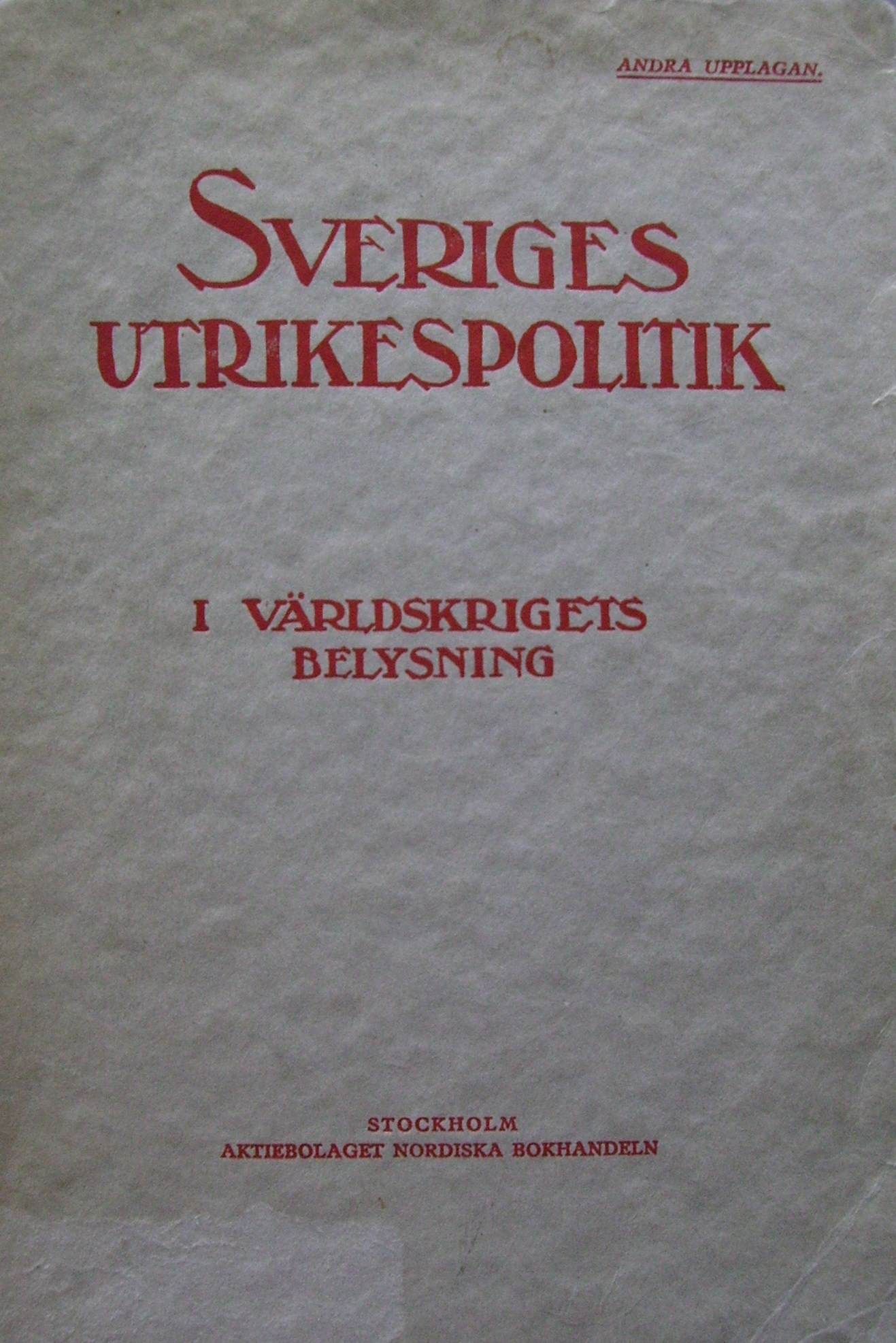 Picture of the booklet Sveriges utrikespolitik i världskrigets belysning (1915)